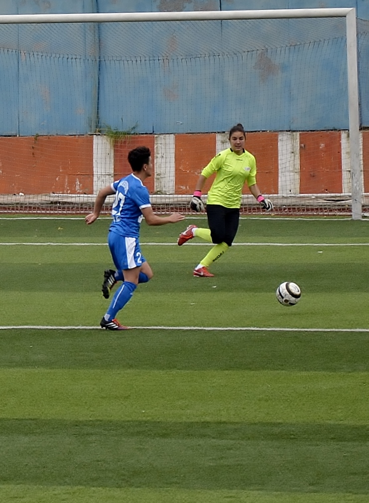 Cansu Yağ (left) of Konak Belediyespor attacking Bilgesu Aydın (right) of Ataşehir Belediyespor in the 2013-14 season